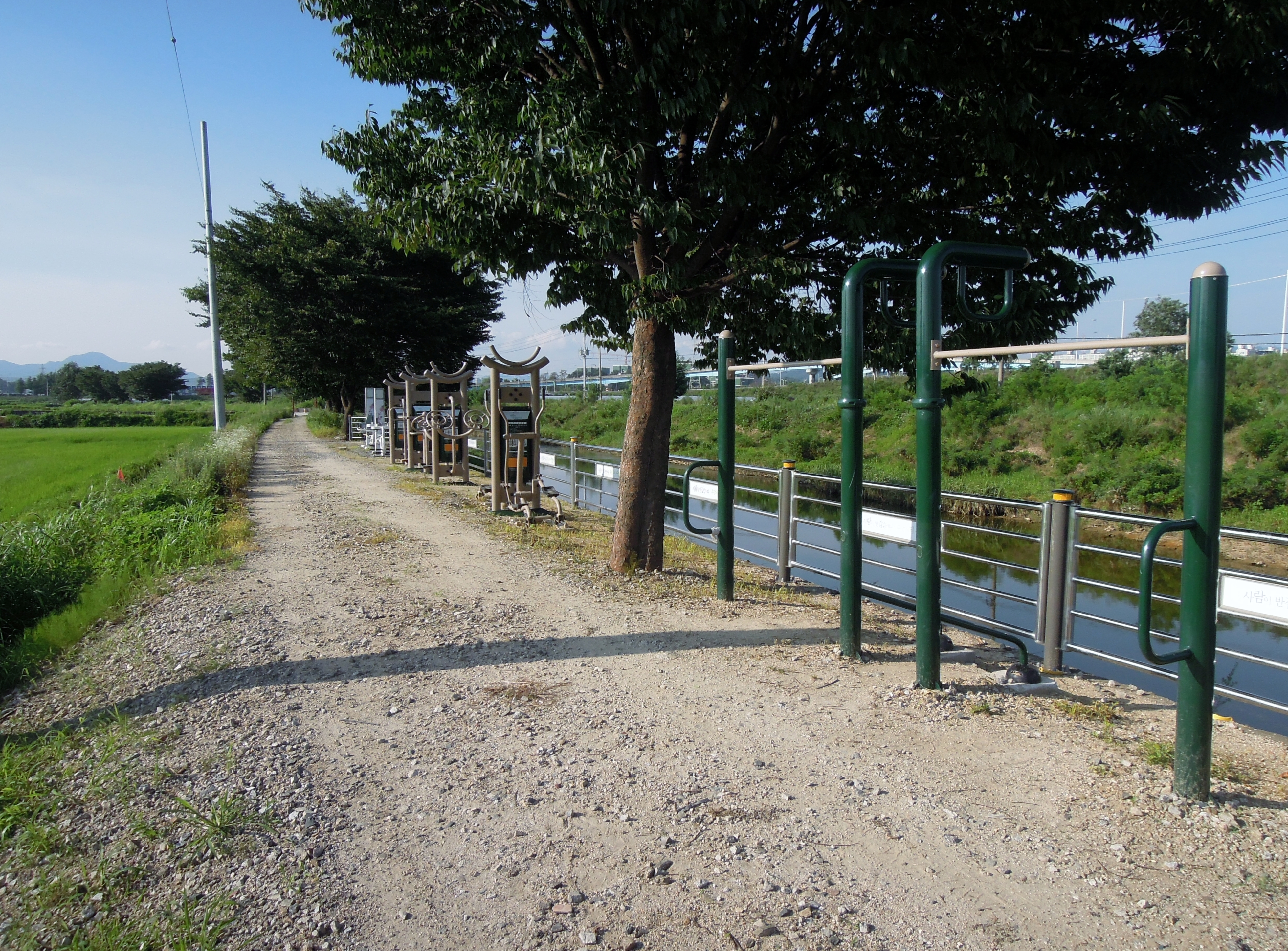 An outdoor gym by the Hwanggujicheon in Dangsu-dong, Suwon, South Korea